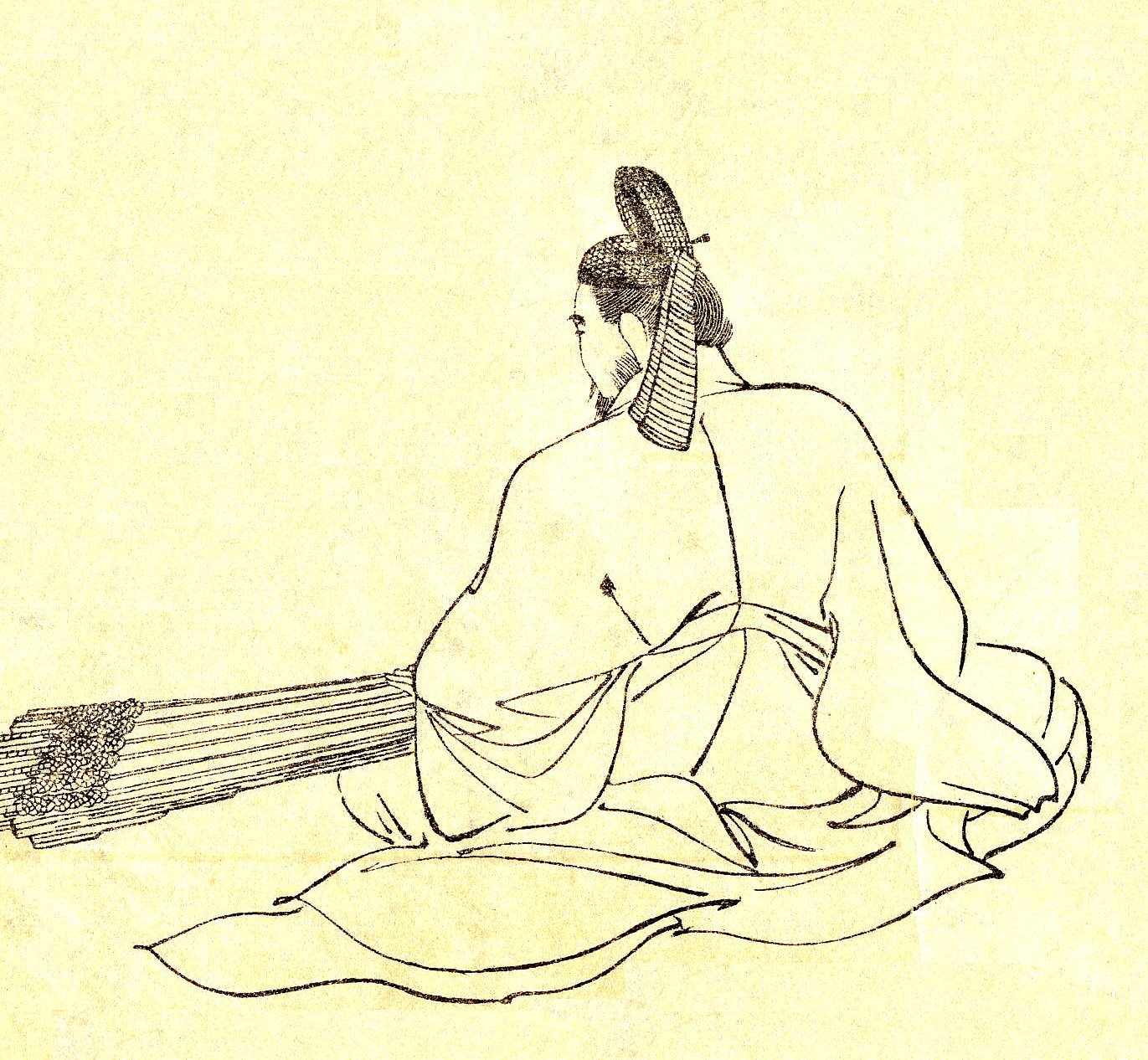 Fujiwara no Otsugu(藤原緒嗣) was a Japanese Politician and court noble in Heian period.